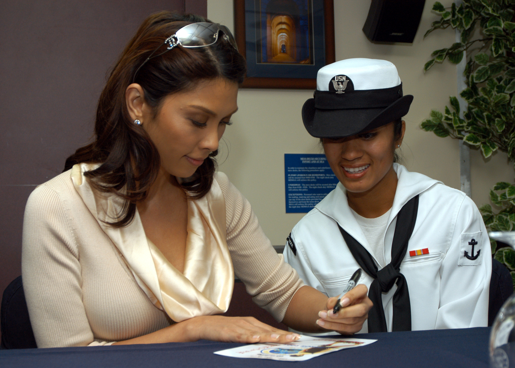 050315-N-9860Y-012 Manila, Republic of the Philippines (Mar. 15, 2005) - Filipina pop star Cielito "Pops" Fernandez signs an autograph for Seaman Recruit Rachel Hoffman during a visit to the command ship USS Blue Ridge (LCC 19). Blue Ridge visited Manila to conduct joint military talks. Blue Ridge, permanently forward deployed to Yokosuka, Japan, is on a regularly scheduled deployment in the Western Pacific and Indian Oceans. U.S. Navy photo by Photographer's Mate 3rd Class Tucker M. Yates (RELEASED)